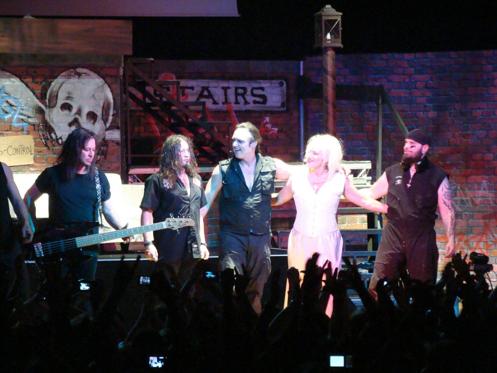 Queensryche with Pamela Moore on Operation Mindcrime II tour